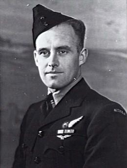 Portrait of Norman Francis Williams CGM DFM & Bar, a distinguished Australian rear gunner during the Second World War who became the RAAF's most highly decorated NCO of the war.